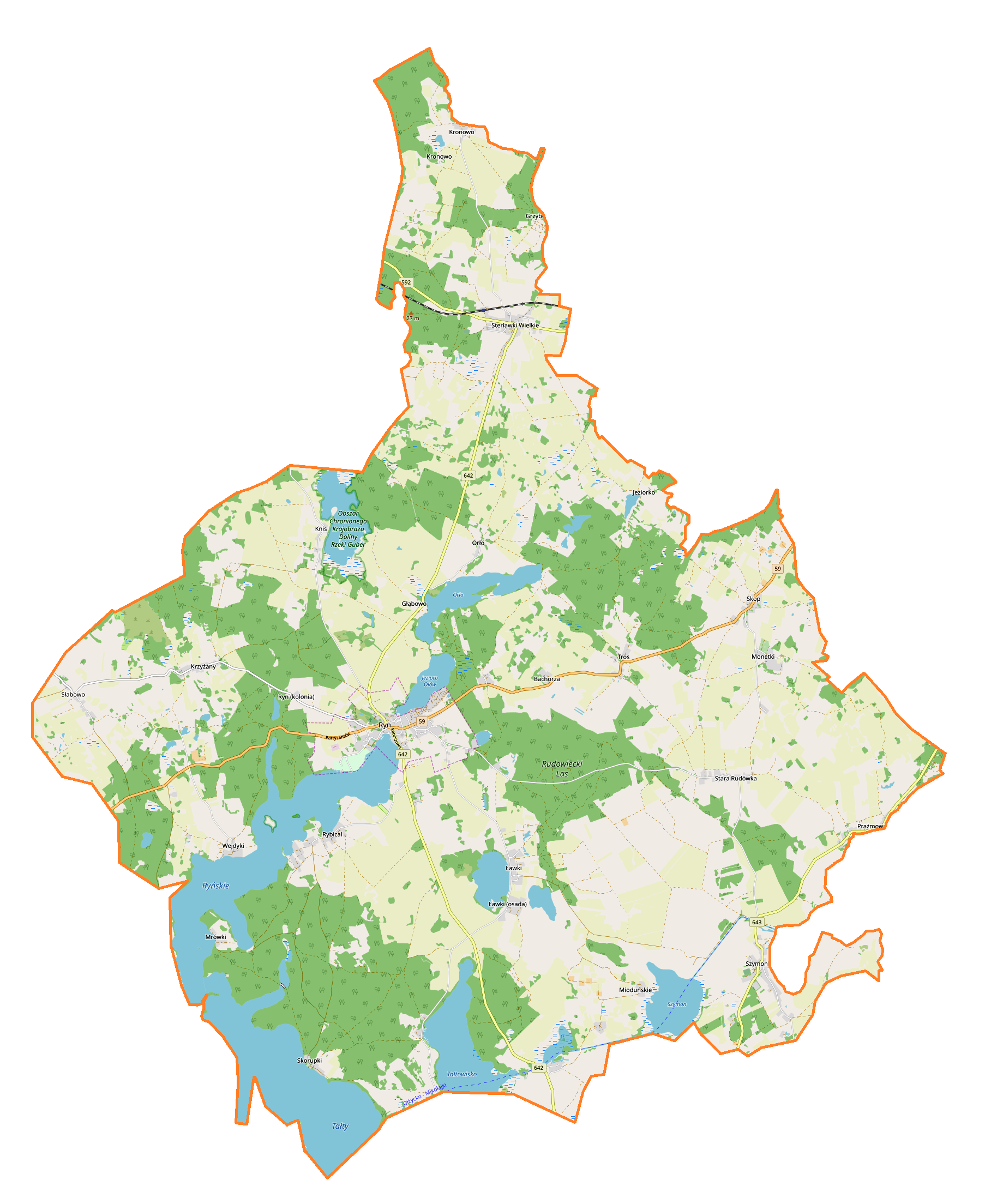 Location map